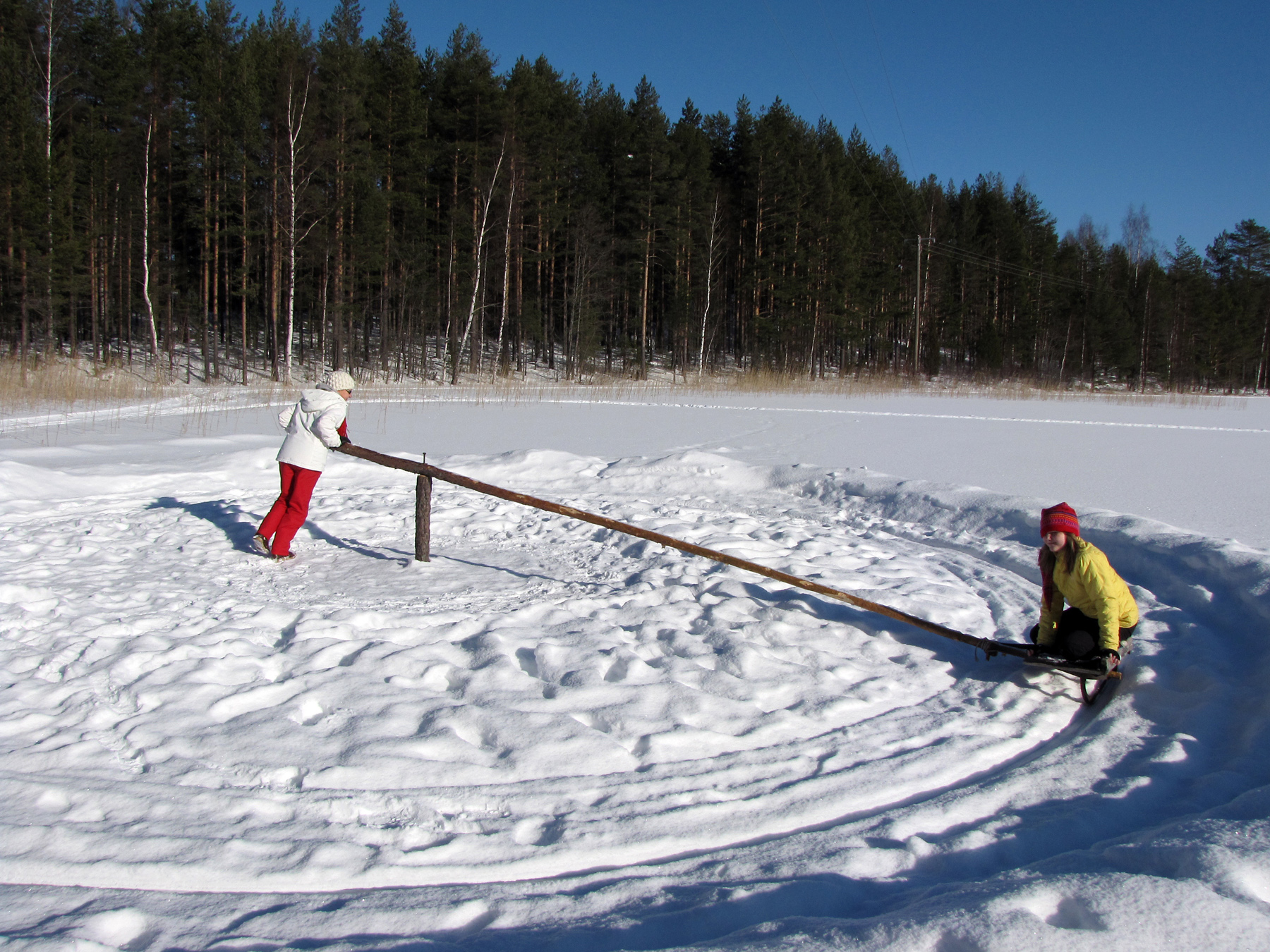 Winter fun on ice-covered Lake Saimaa, Puumala, Finland